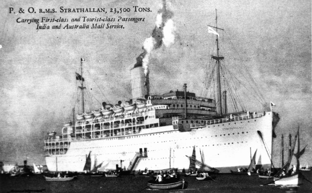 Strathallan (ship) 23500 Tons. (Description supplied with photograph.).